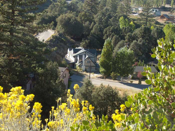 Photo by George Garrigues. Pine Mountain Club, California, October 2008.